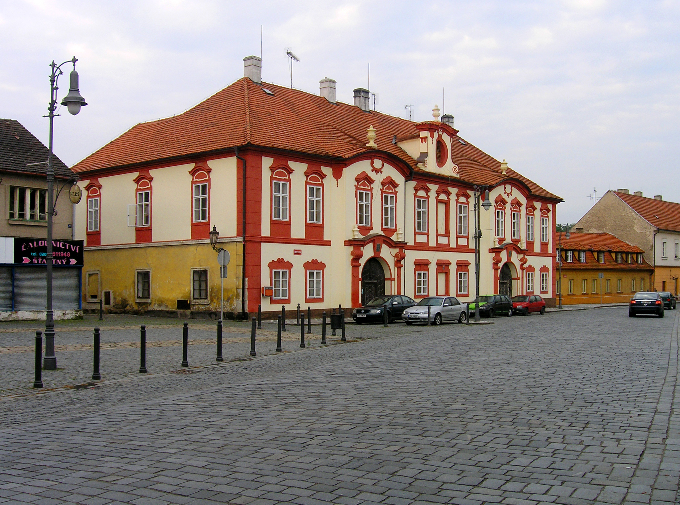 Svatého Václava square in Stará Boleslav, Czech Republic